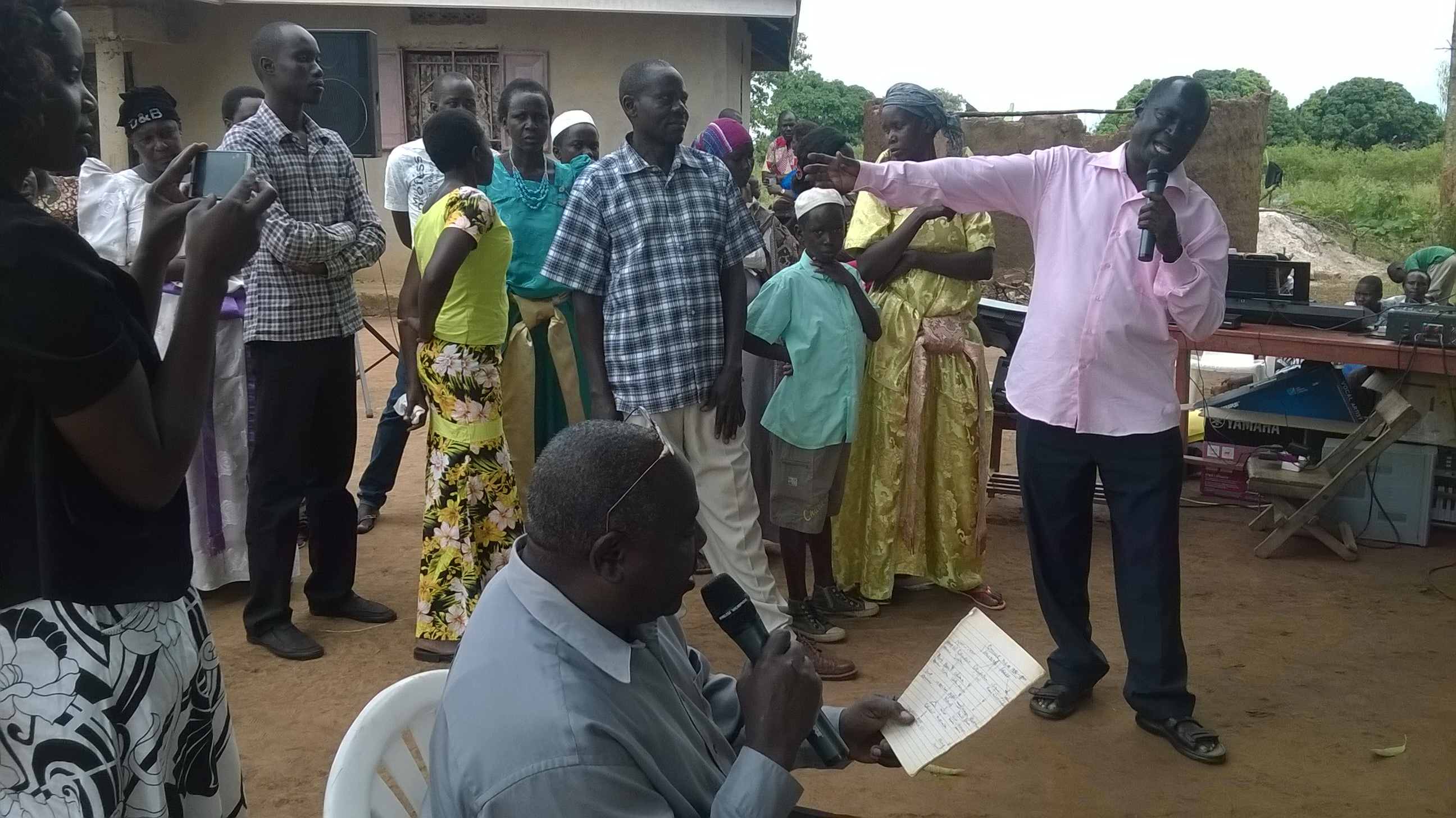 it is a clan ceremony that happens at the end of every year where all clan members come together to get to know each other in order to avoid marriage between families of the same clan This is an image with the theme "Play" from: Uganda